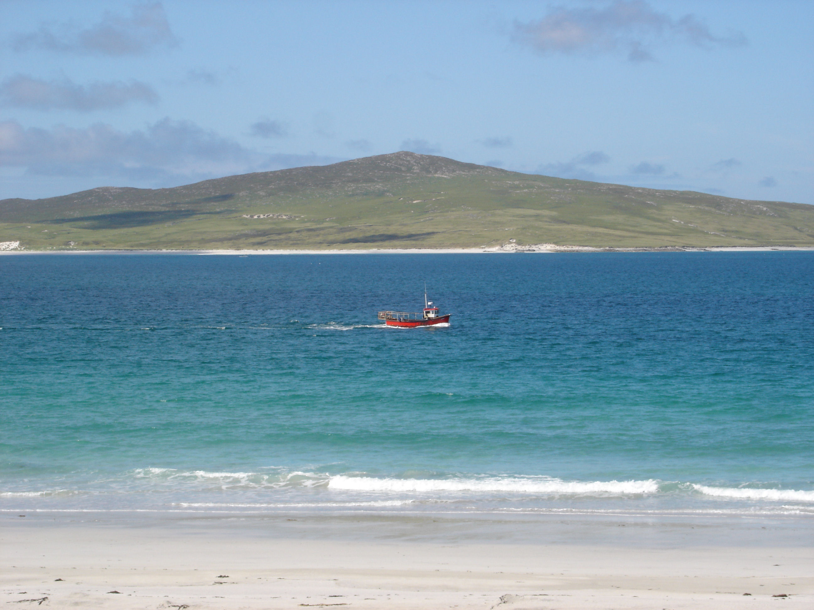 A Berneray fishing boat passes the west beach. In the centre distance is Pabbay, an unpopulated island in the Sound of Harris.